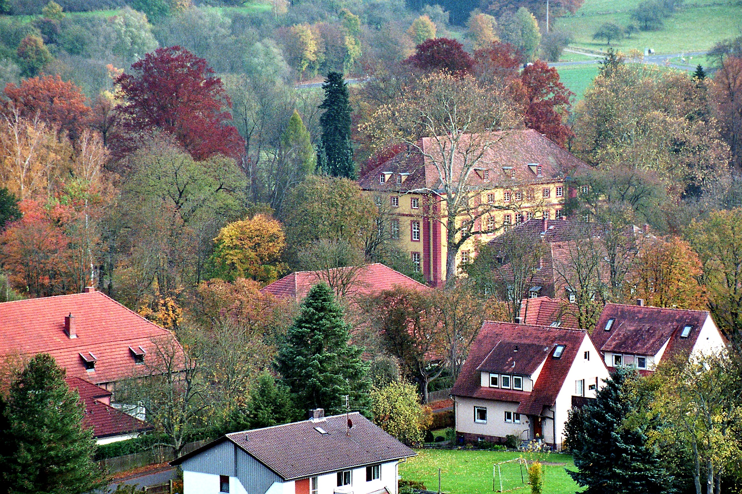 Schlitz, view from the tower "Hinterturm" to the Hallenburg palace